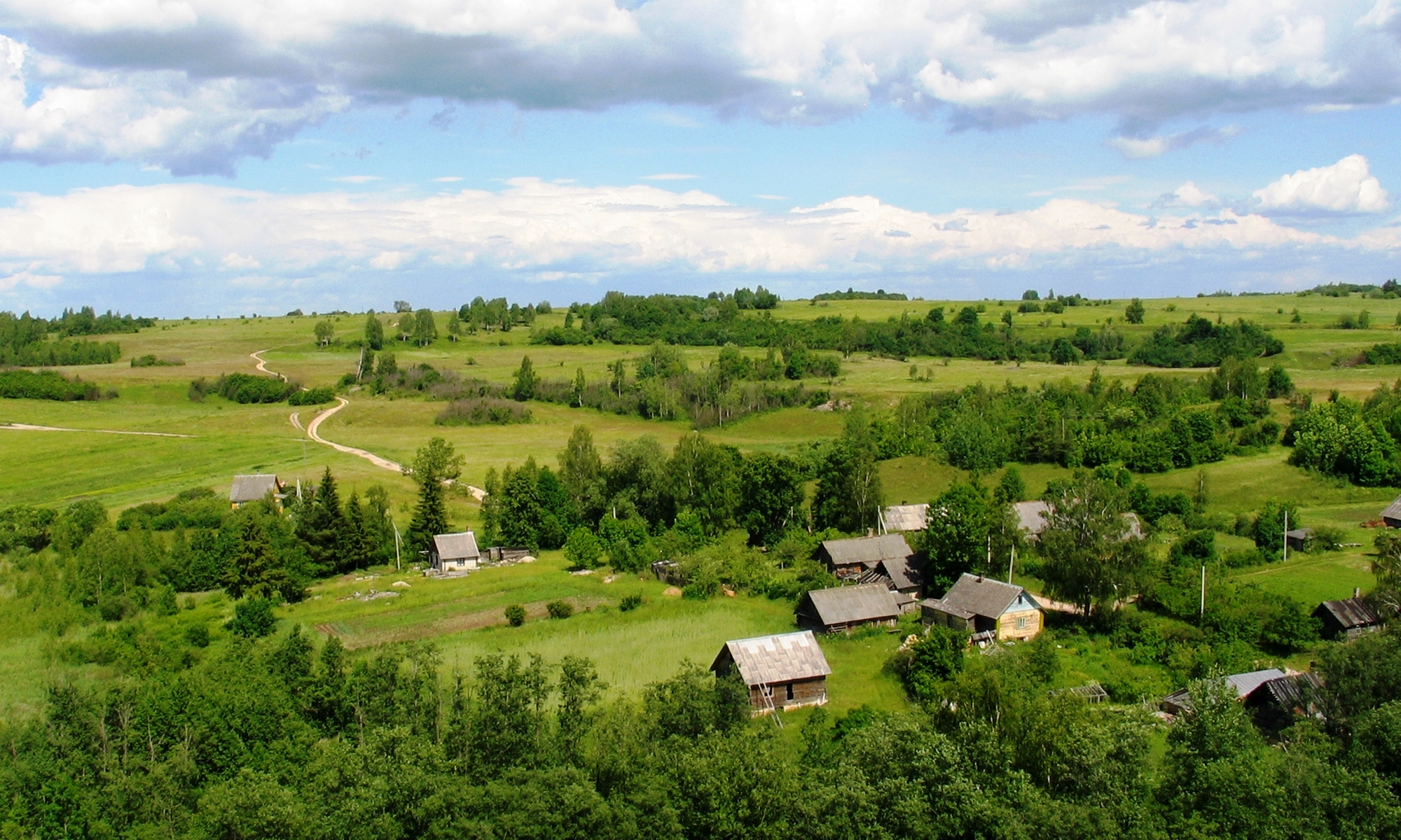 Town of Izborsk.